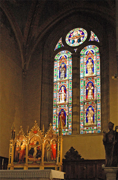 Santa Trinita. Presbytery. Florence